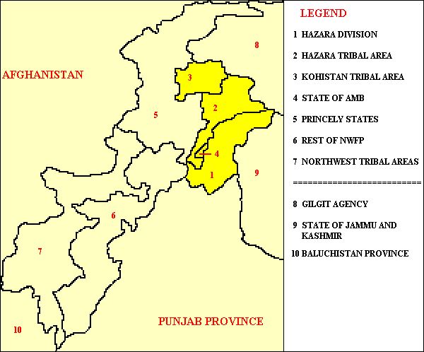 A map of the constituent parts of the former Hazara Division of Pakistan.